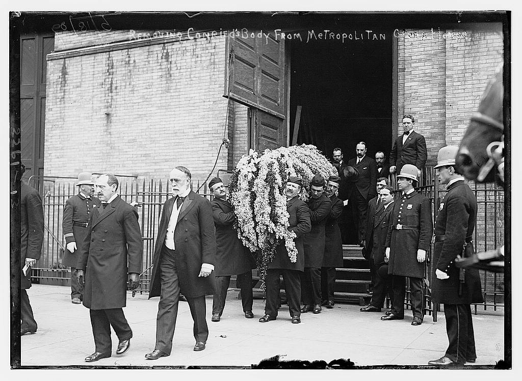 Removing Heinrich Conried's body from Metropolitan Opera House in 1909 (LOC) Bain News Service, publisher. Removing Conried's body from Metropolitan Opera House 1909 May 13 (date created or published later by Bain) 1 negative : glass ; 5 x 7 in. or smaller. Notes: Title and date from data provided by the Bain News Service on the negative. Photo shows funeral and coffin of Heinrich Conried (1855-1909), a theatrical manager and, until 1908, director of the Metropolitan Opera House, New York City. (Source: Flickr Commons project, 2008) Forms part of: George Grantham Bain Collection (Library of Congress). Format: Glass negatives. Repository: Library of Congress, Prints and Photographs Division, Washington, D.C. 20540 USA, General information about the Bain Collection is available at Persistent URL: Call Number: LC-B2- 2261-13